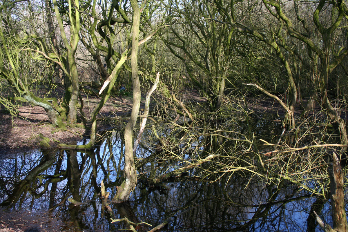 One of the many small meres or ponds within the wooded areas of Sound Heath, Cheshire. (This view is not within the SSSI/LNR.)